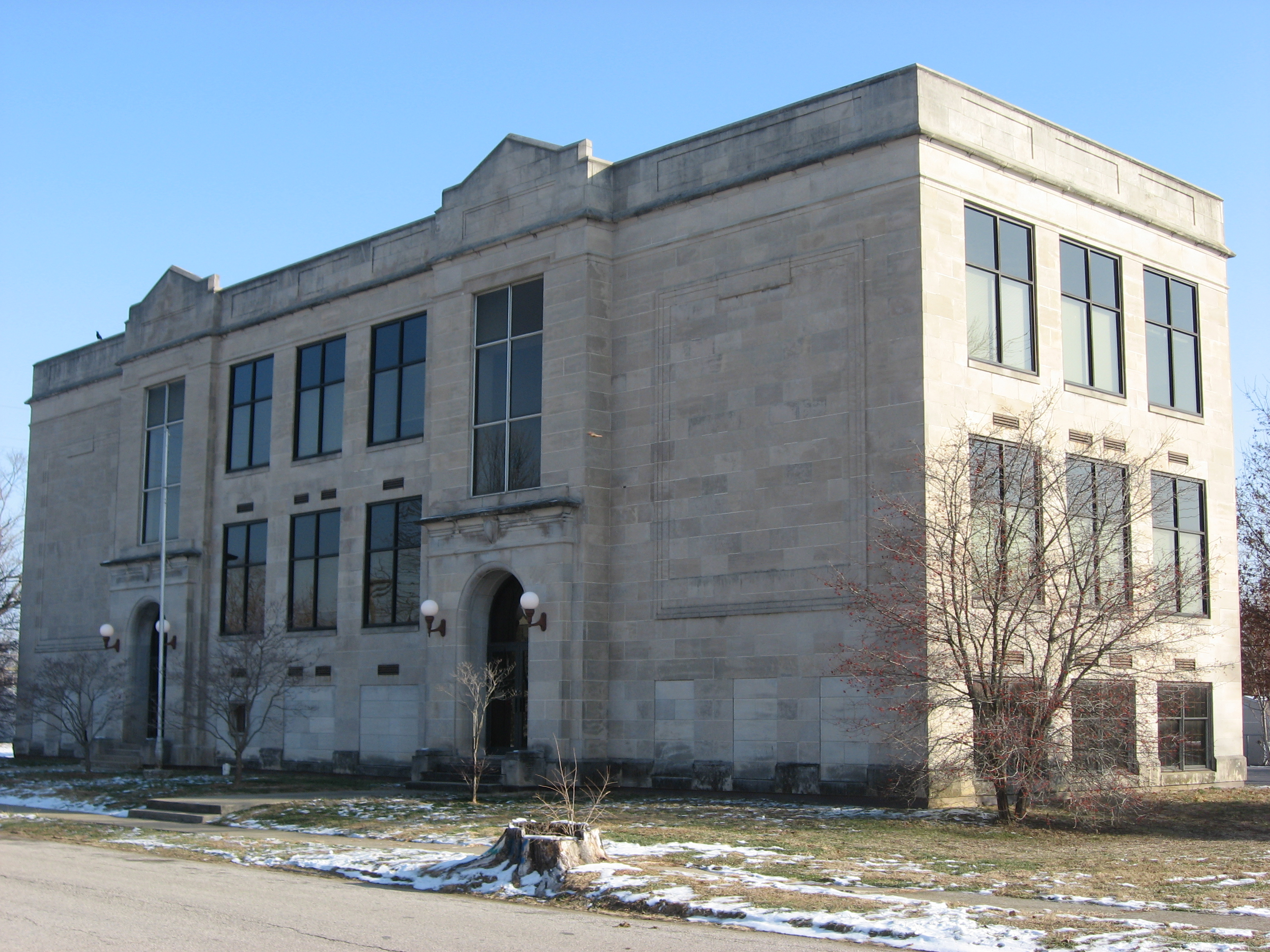 Front and southern side of the former Madden School, located at 620 H Street in Bedford, Indiana, United States. Built in 1923, it is listed on the National Register of Historic Places.